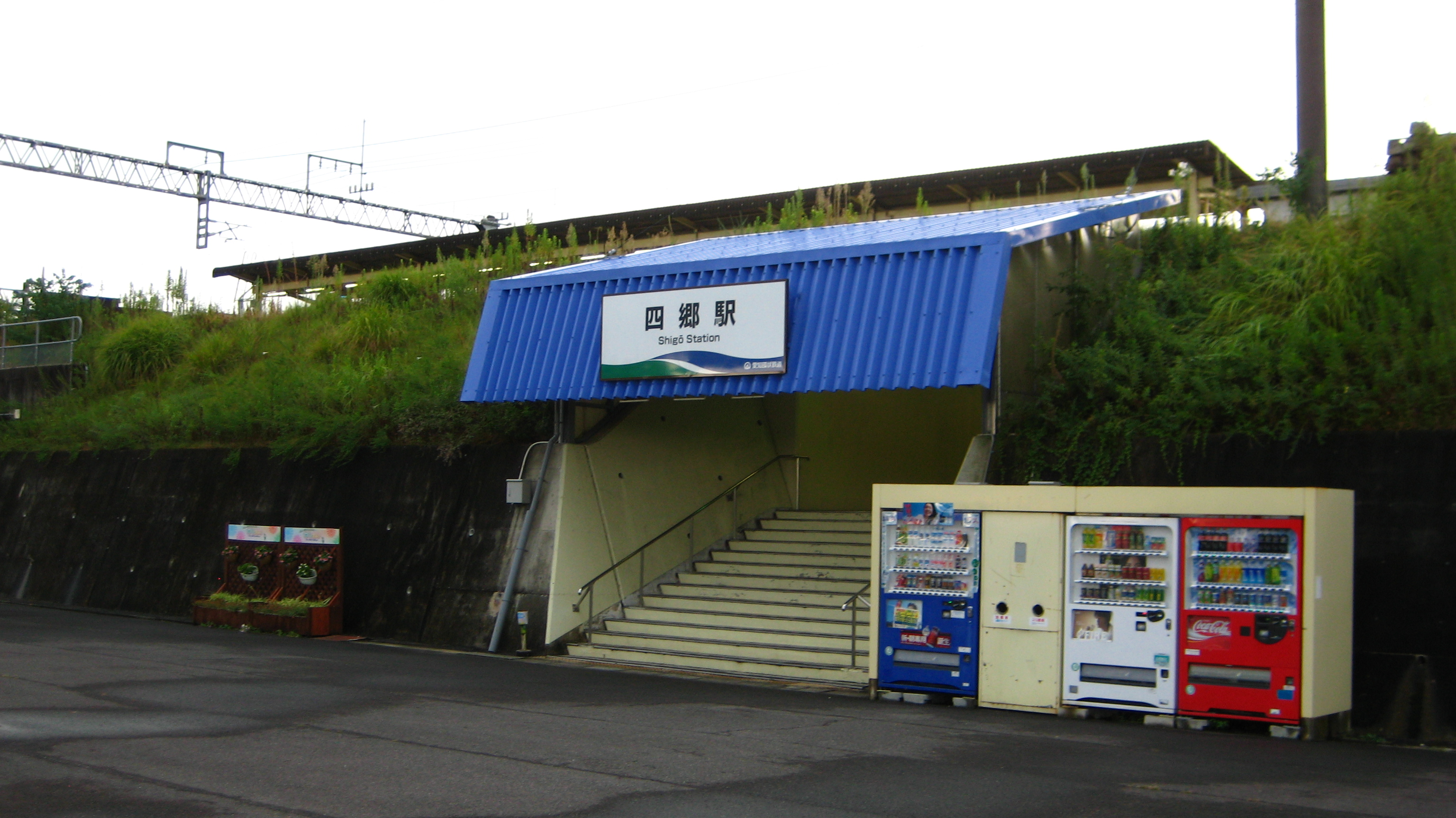 Aichi Loop Railway Shigo Station